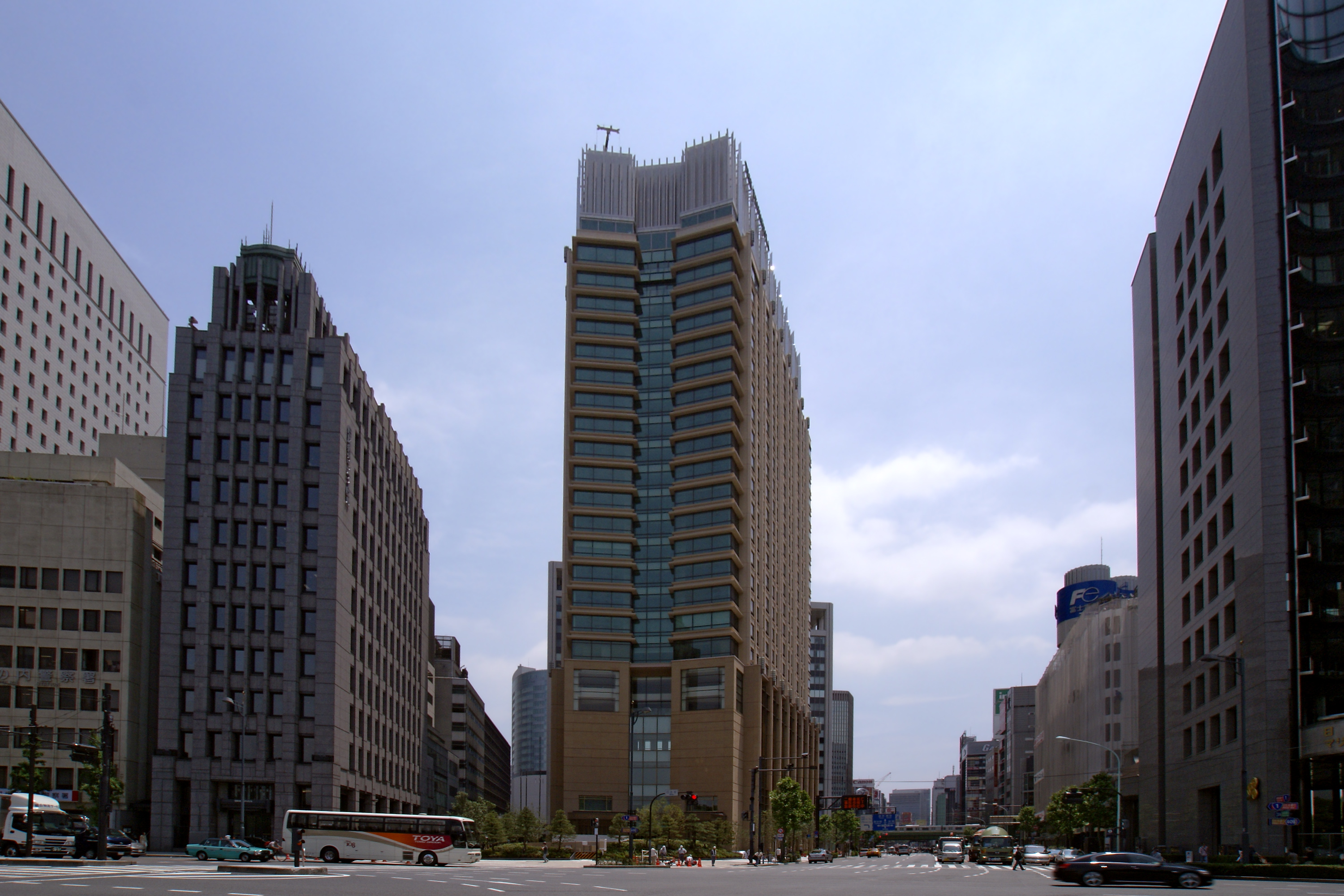 Hibiya in Chiyoda-ku, Tokyo, Japan